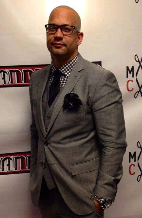 Picture of Pierre Edwards winter 2014.